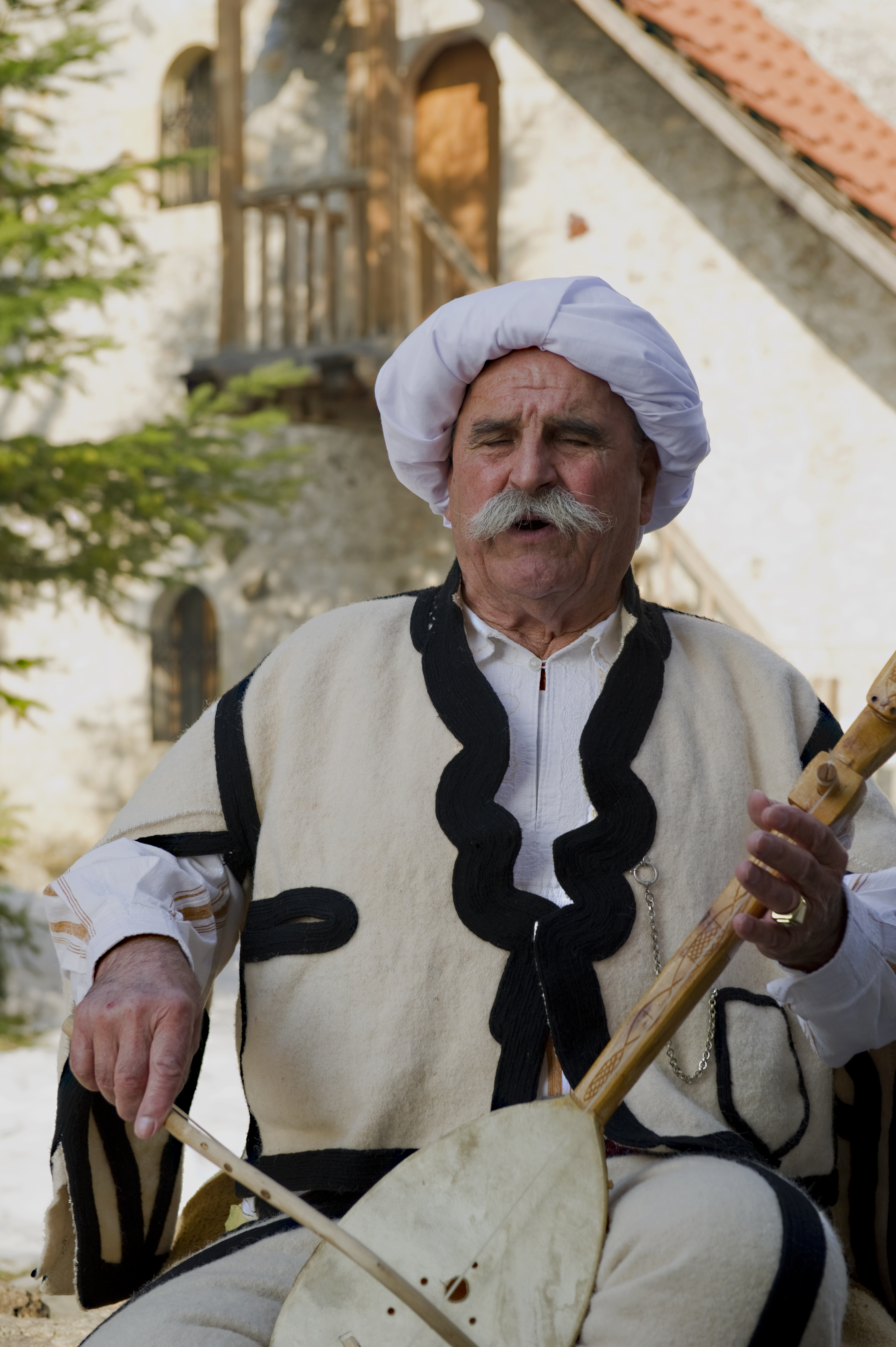 lahutari Peje